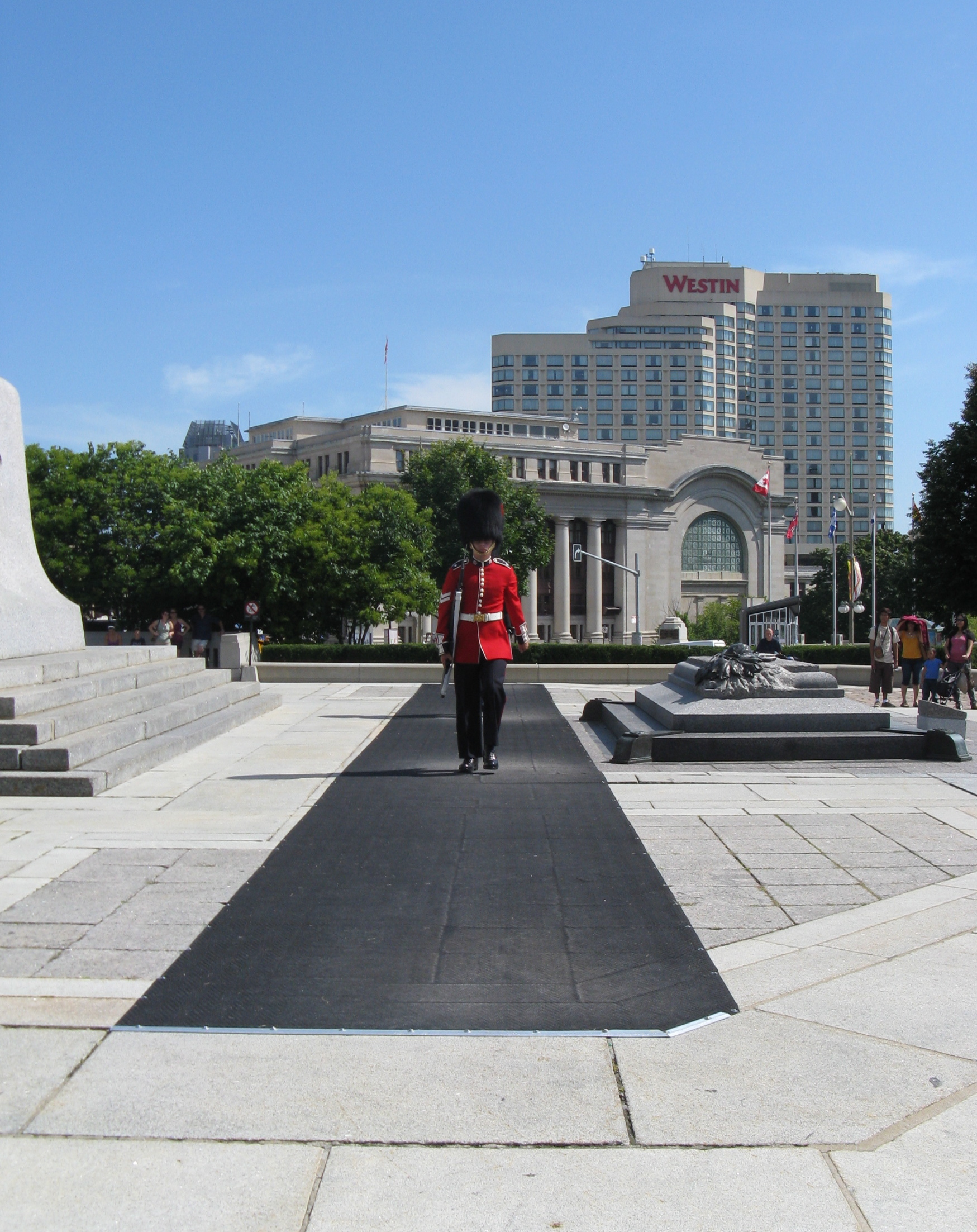 A ceremonial guard marches by the Tomb of the Unknown Soldier at the National War Memorial in Ottawa, Canada.